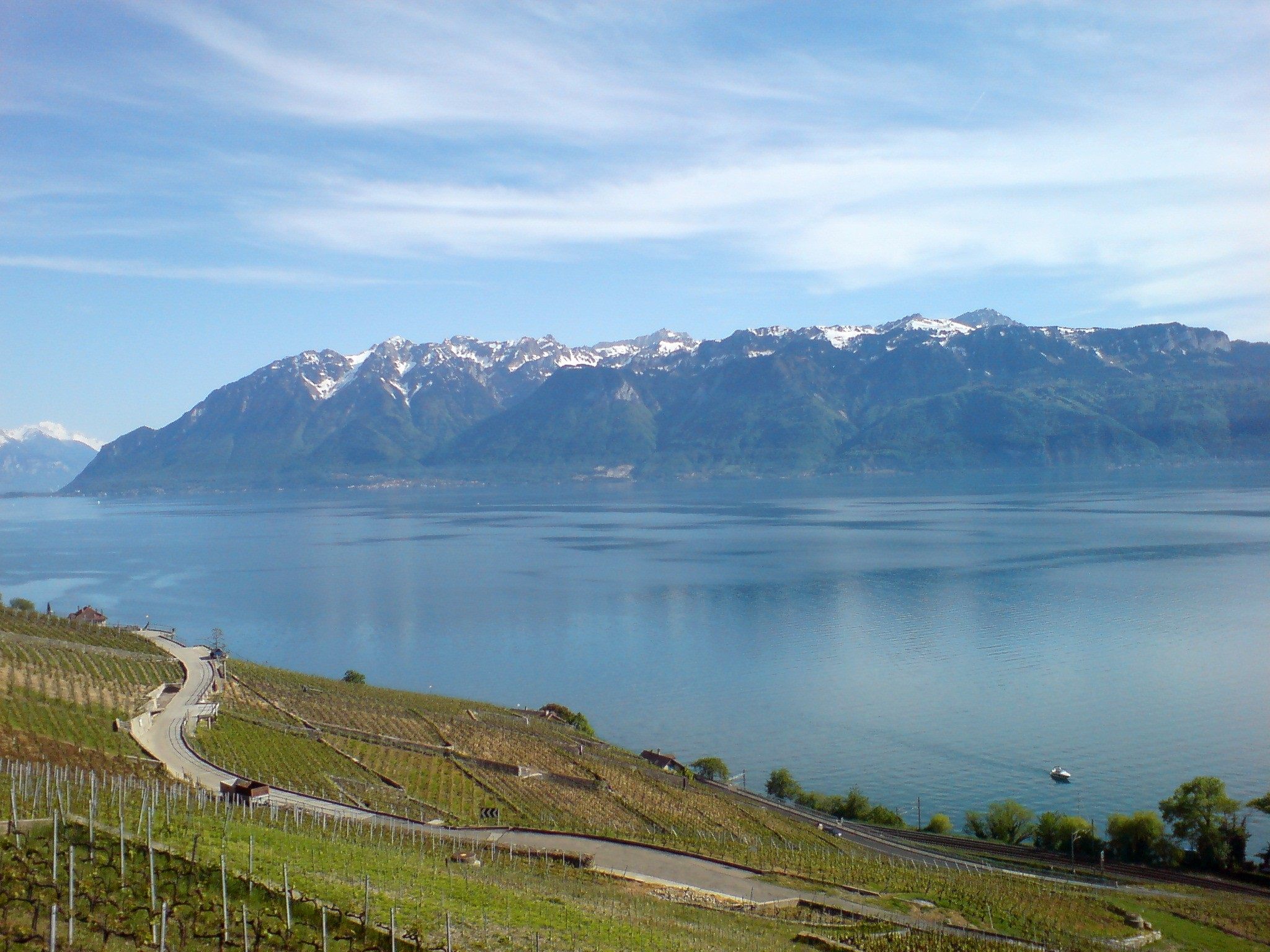 Calamin and Lake Geneva Alps from Lavaux near Epesses, Vaud. Mountains visible on the photo are (from left to right): Grand Combin, 4314 m (Valais Alps) Le Gramont, 2172 m Cornettes de Bise, 2432 m Dent d'Oche, 2222 m